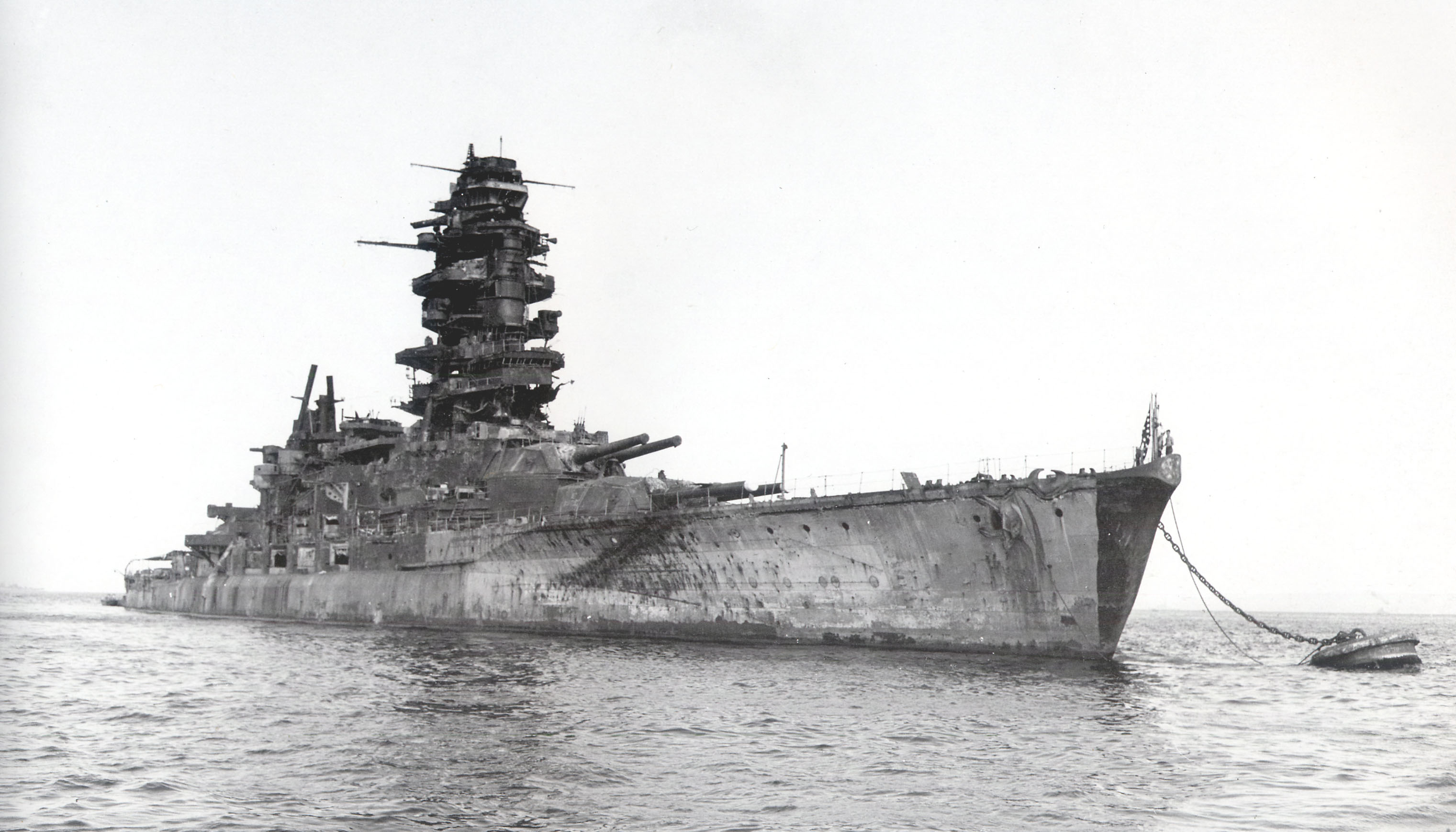 Japanese Battleship Nagato off Yokosuka,1946.